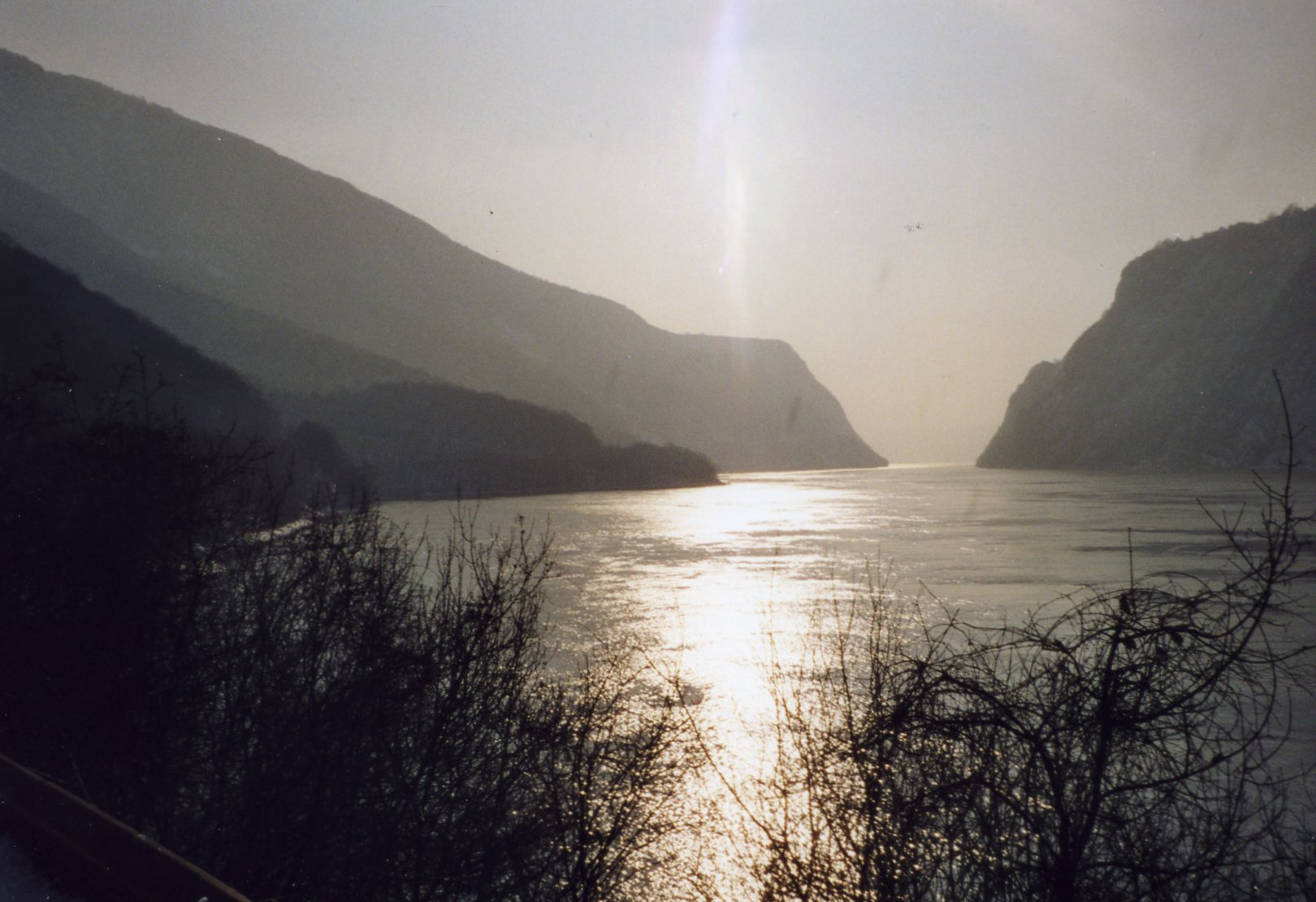 Iron Gate, Danube River.